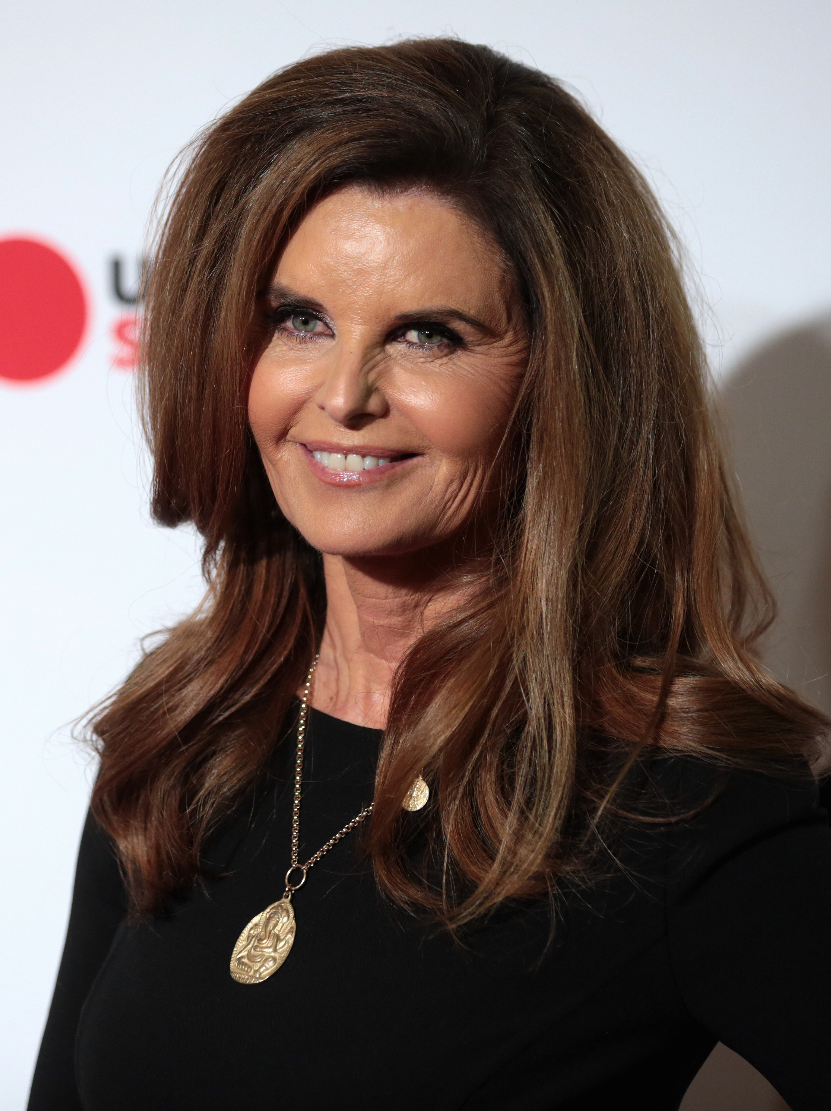 Maria Shriver at Celebrity Fight Night XXIV in Phoenix, Arizona.